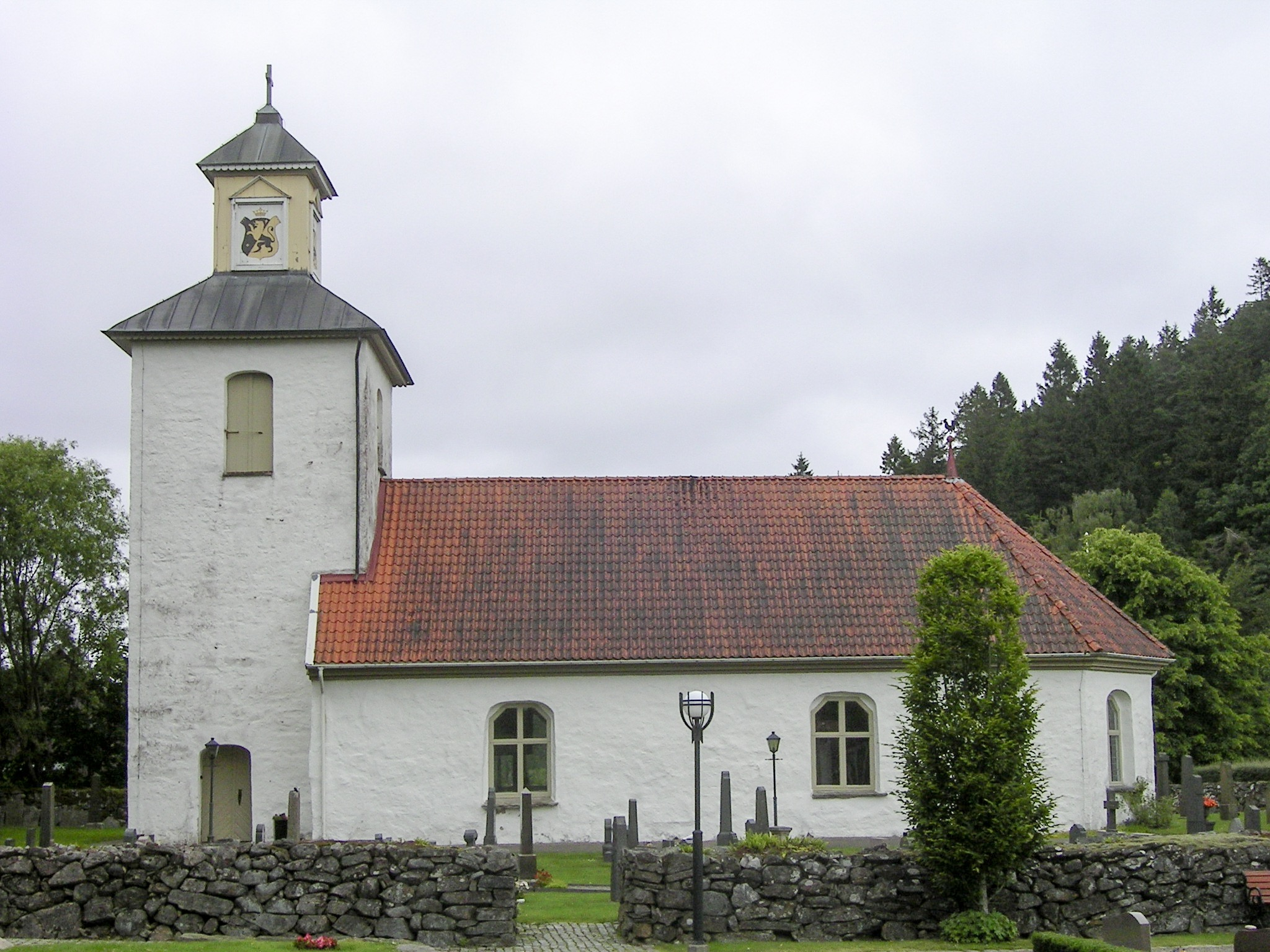 Church of Grimmared in Västergötland (Halland County), Sweden